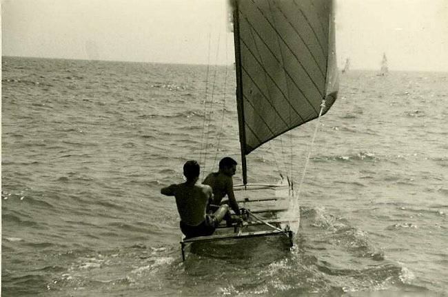 Two men sailing with a Patí de vela in Sant Pol de Mar (Barcelona).